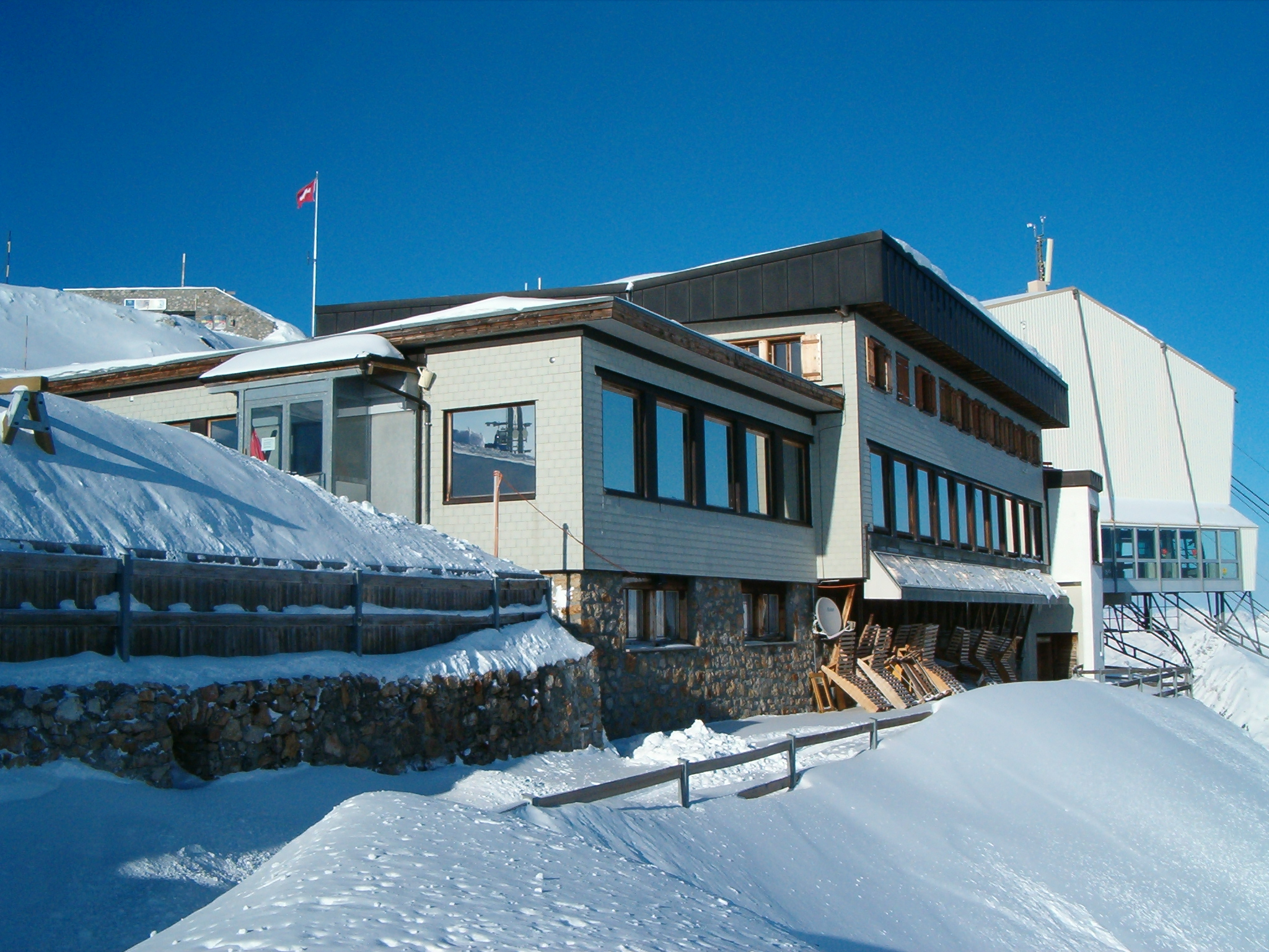 Weisshorn Mountain Lodge at Arosa, Switzerland